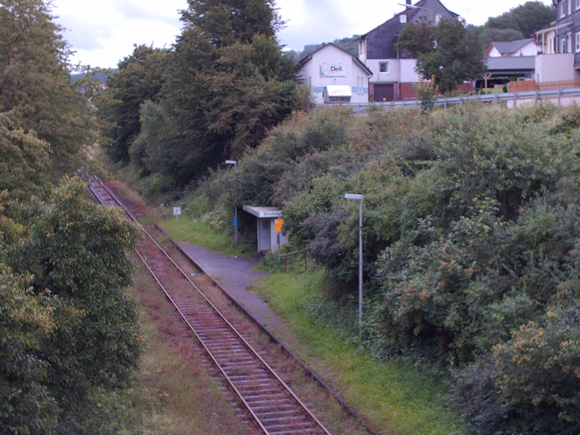 Struthütten station, Neunkirchen, Germany check usage